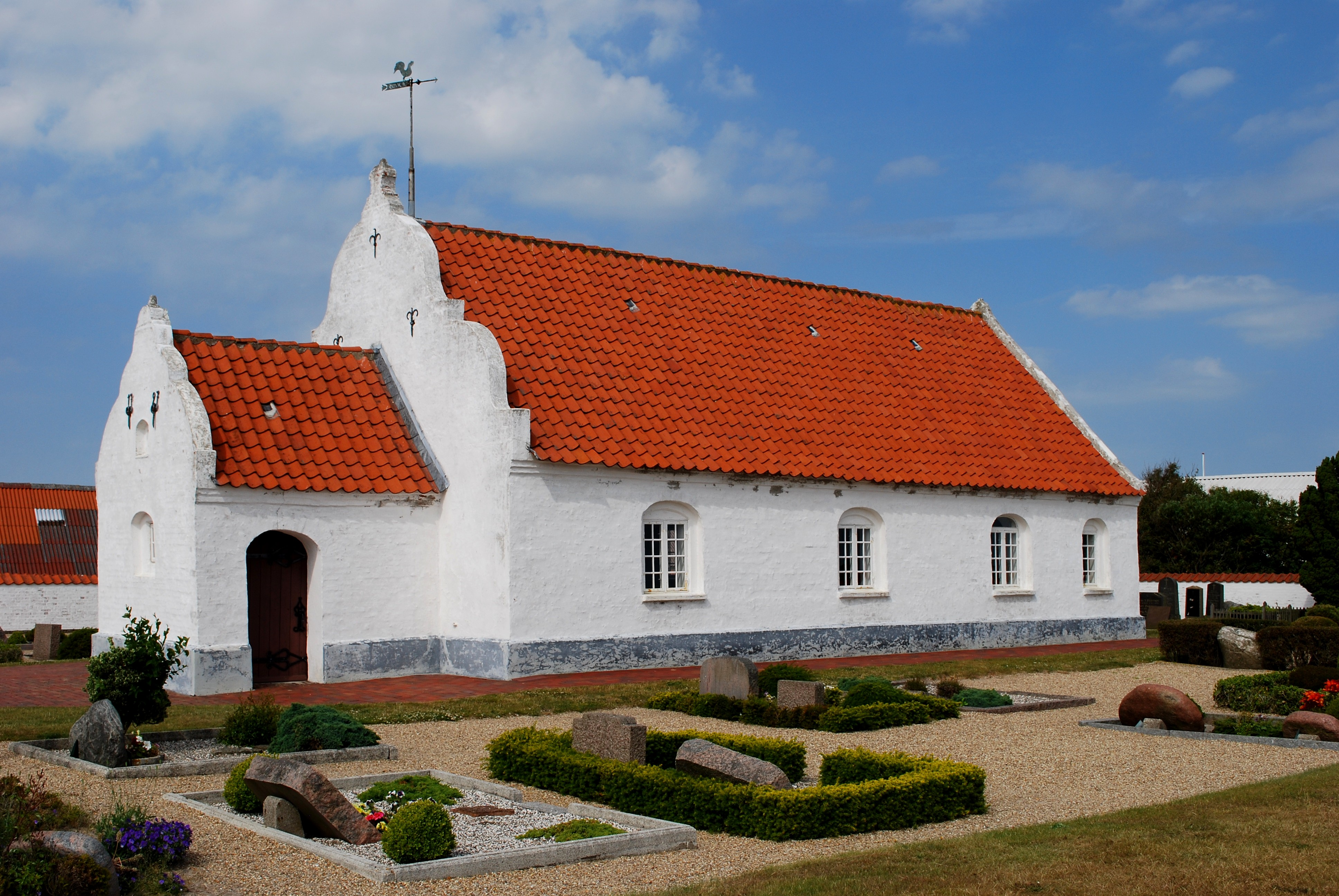 Mandø Kirke, Mandø, Denmark